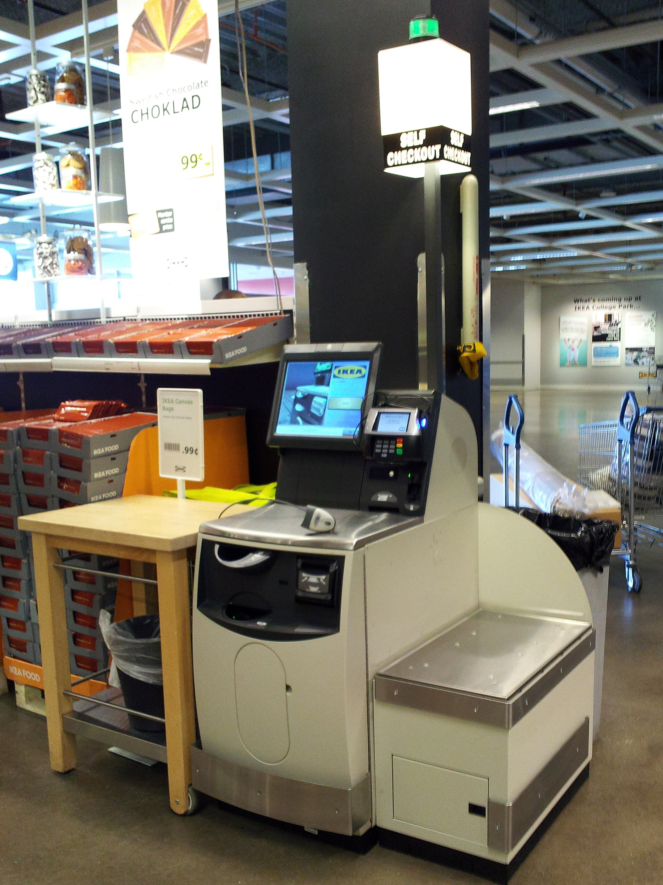 Self-checkout lane at IKEA in College Park, Maryland.